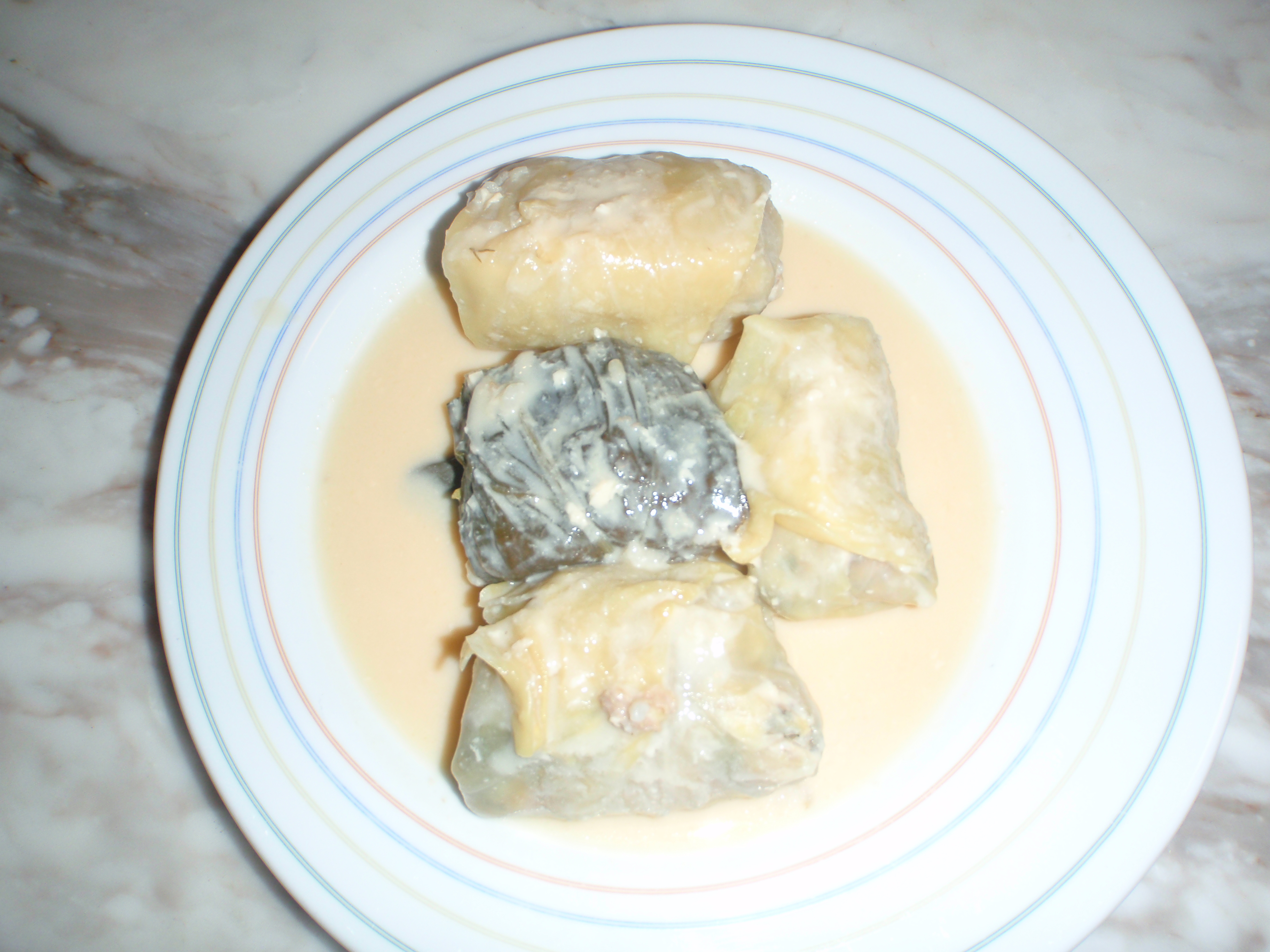 Lahanodolmades stuffed cabbage leaves and stuffed with avgolemono (egg and lemon). The darker colored one is not cabbage its stuffed seskoulo (stuffed chard).